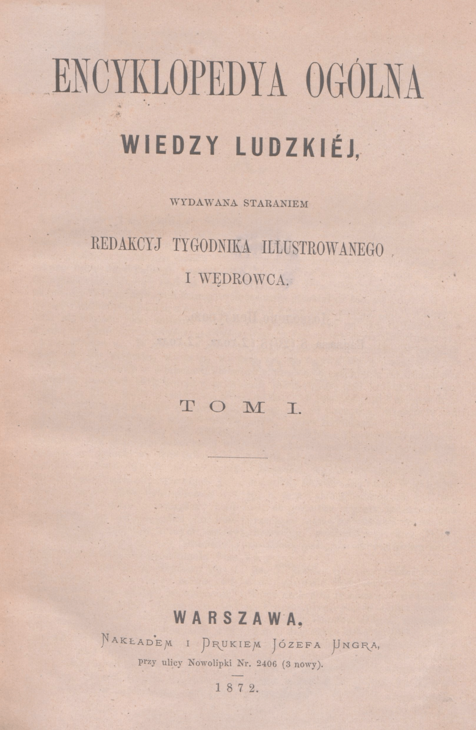 Encyklopedya ogolna wiedzy ludzkiej